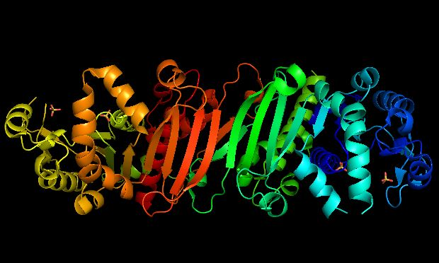 3d cartoon of phosphoribulokinase from Methanospirillum hungatei (5b3f in RCSB PDB)